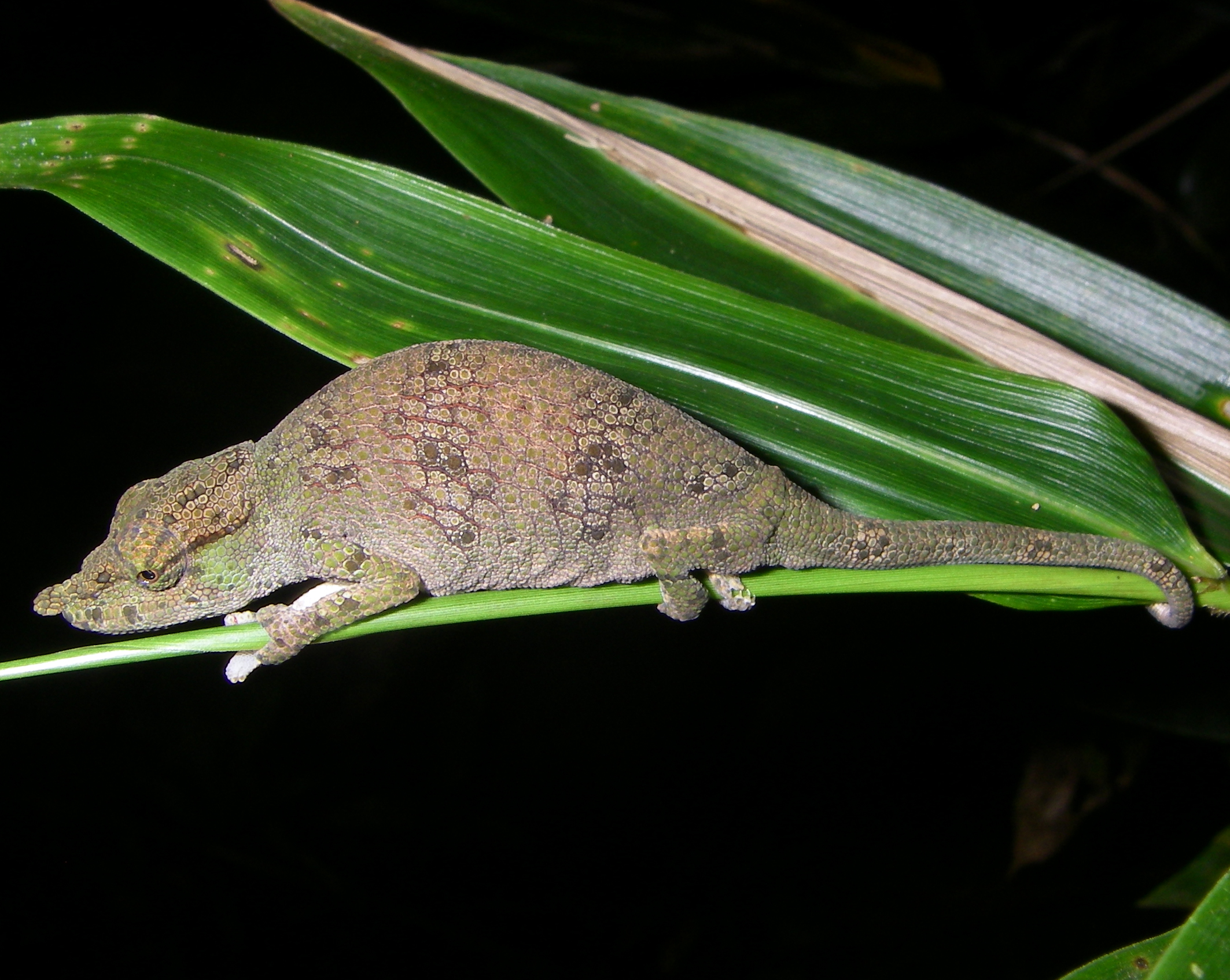 Calumma nasutum (Chamaeleonidae); Ranomafana National Park, Madagascar